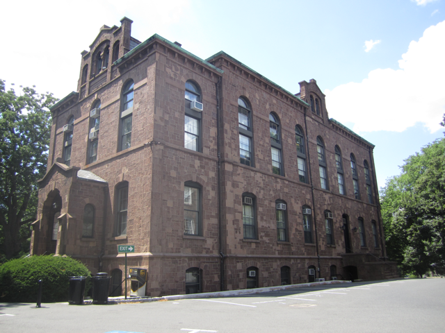 The exterior of the Rutgers Geology Museum in 2011